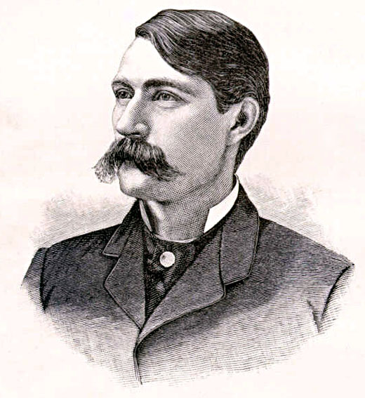 J. Hart Brewer, US Representative from New Jersey